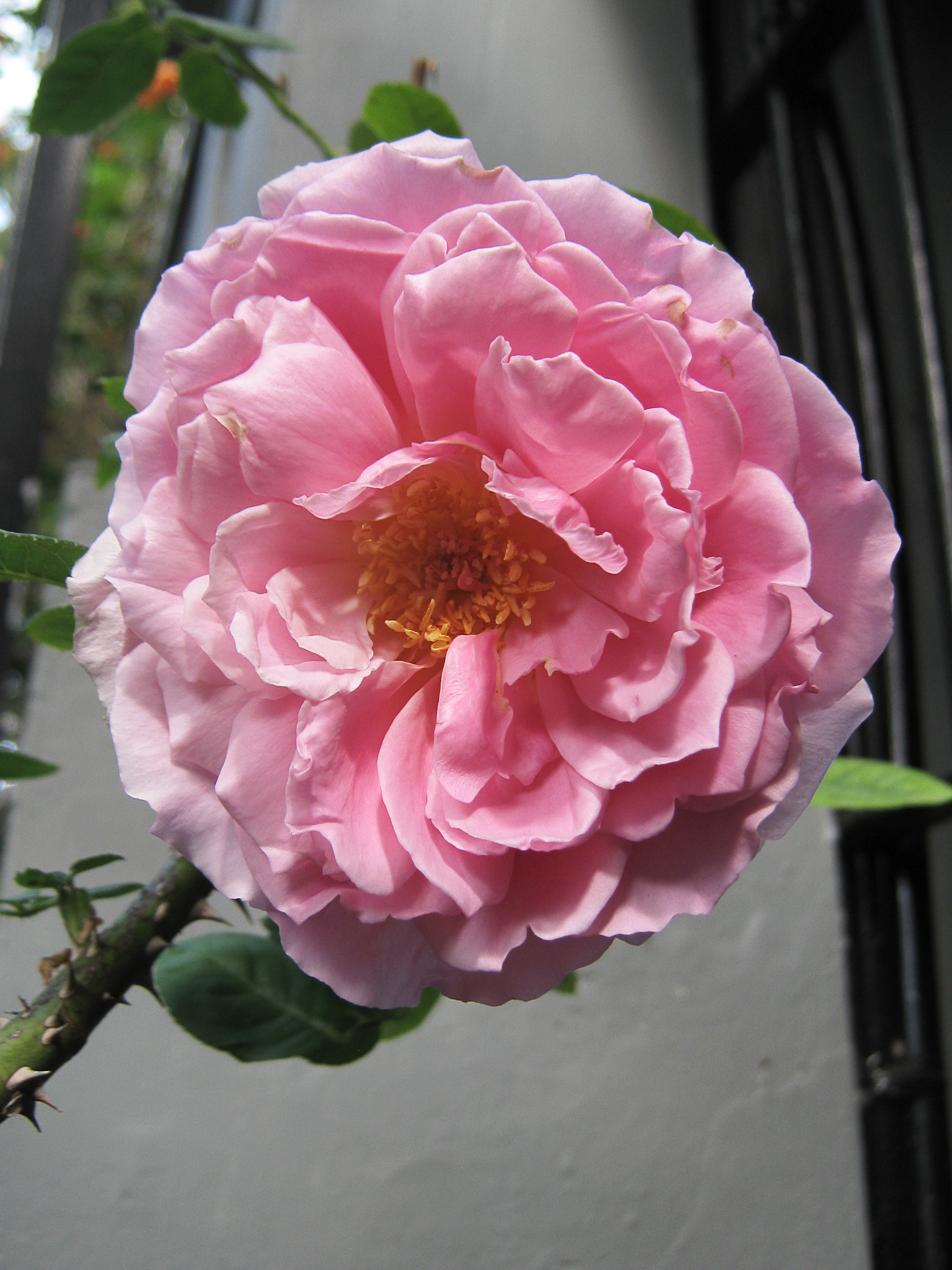 Rose 'Lady Somers', Hybrid Tea by Alister Clark 1930; photographed in St Kilda, Victoria